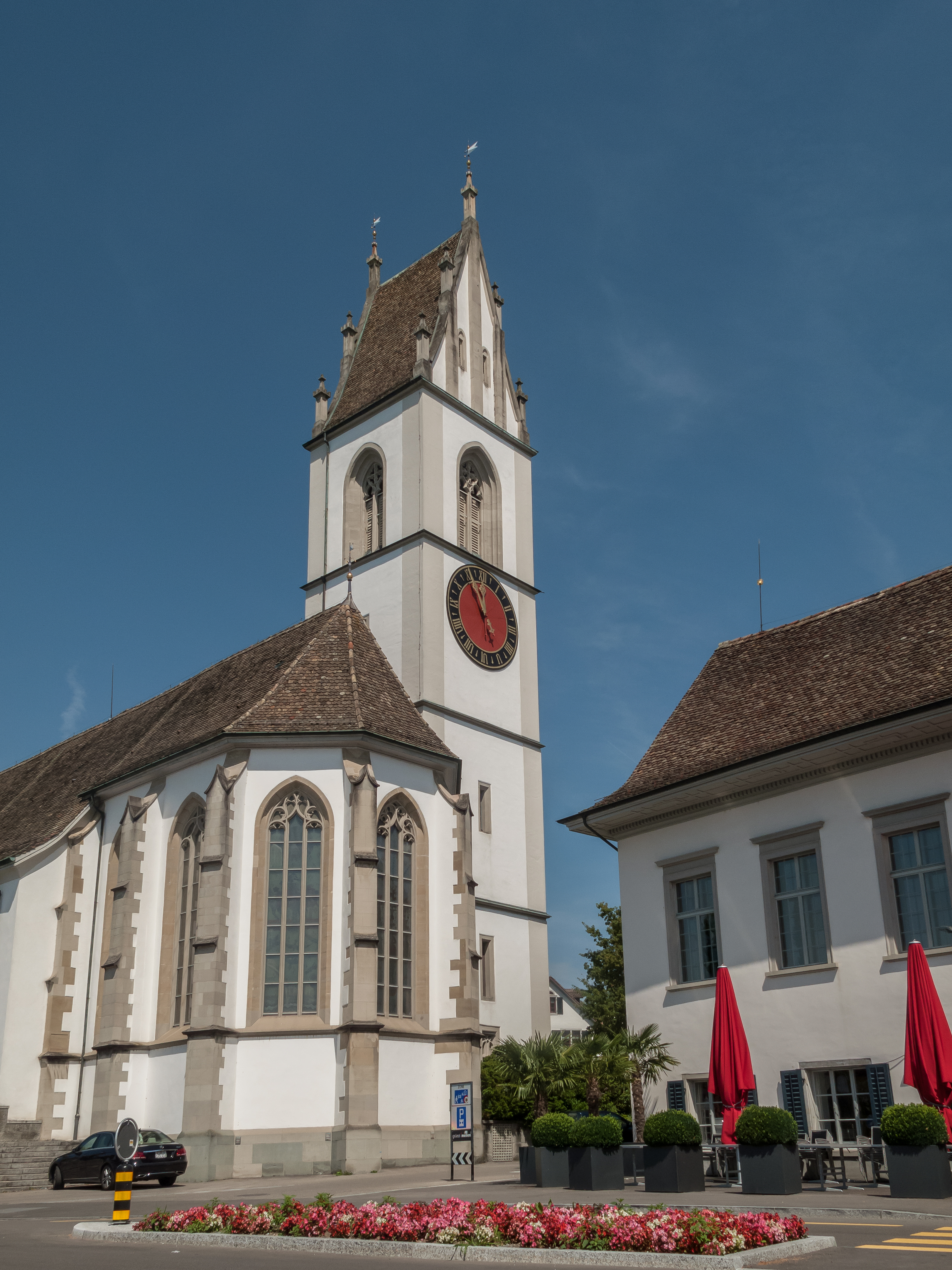 Meilen, reformed church